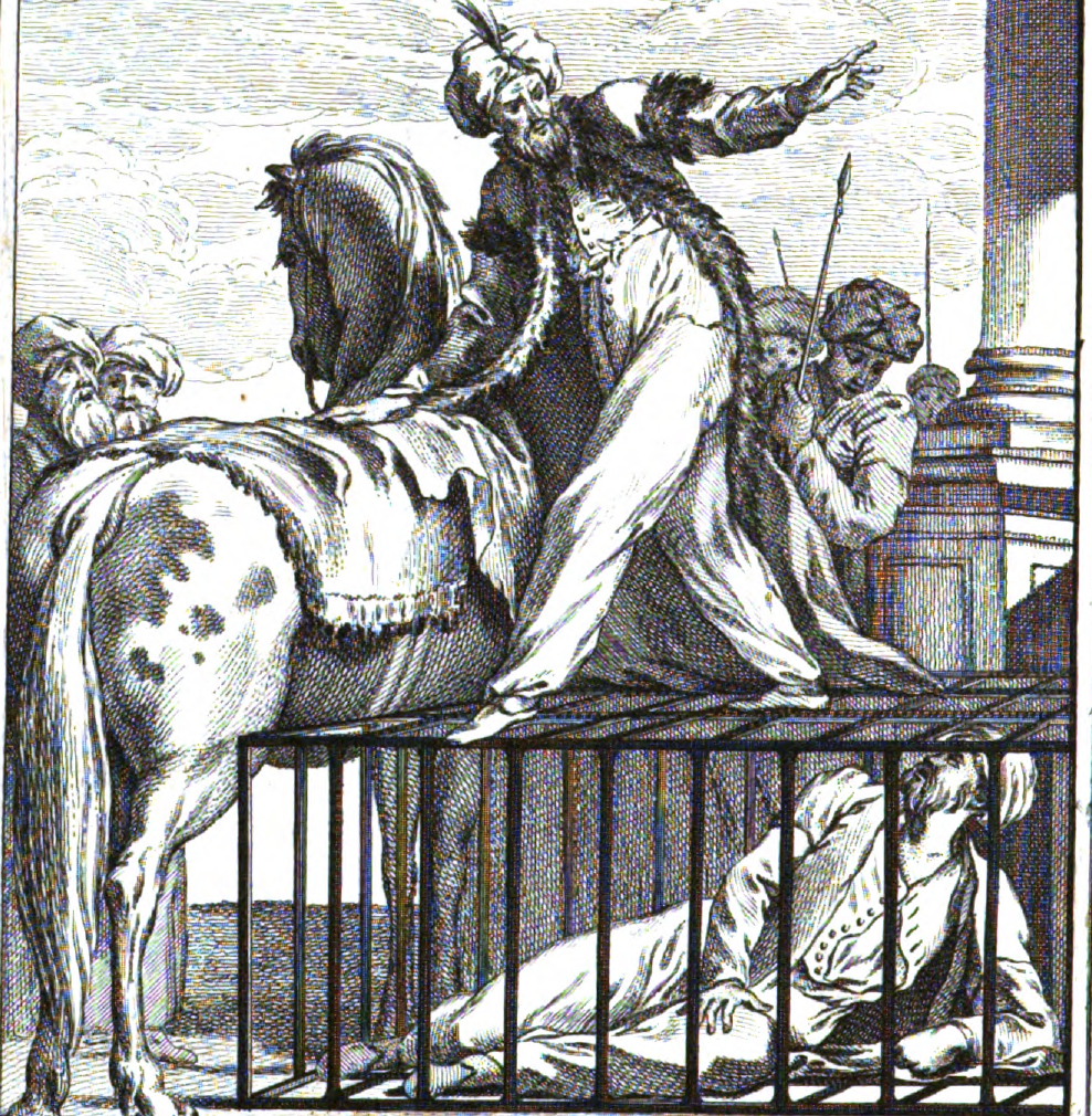 Bajazet and Tamerlan as Guer imagined them. Guer never vesited Turkey.